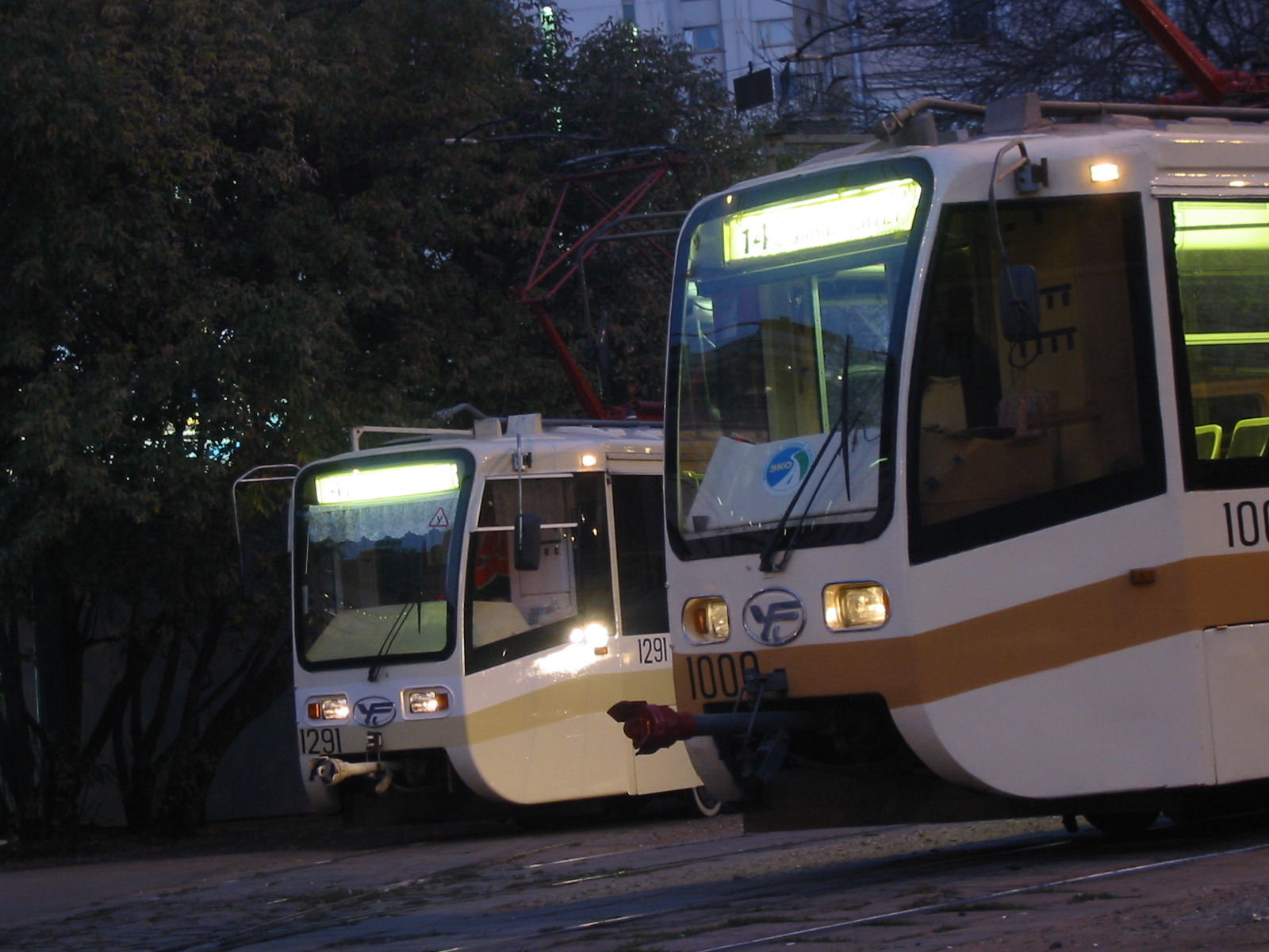 Tramcars 71-621 #1000 and 71-619K #1291. Class 71-621 by UKVZ. Simlar 71-619K, but with some shorter body for old sheds of Apakovskoye depot. Only one vehicle was produced.